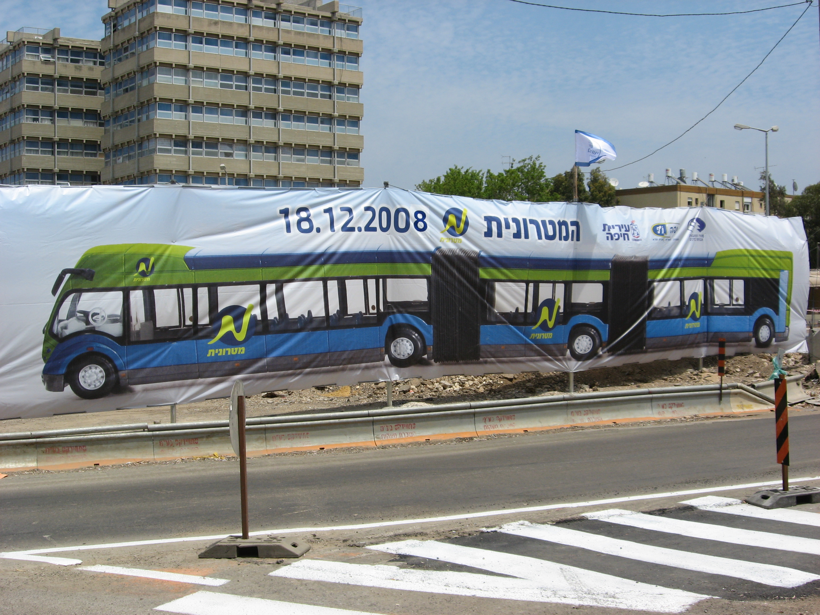 A photo of a large banner put up in Kiryat Eliezer, Haifa, advertising the Metronit.